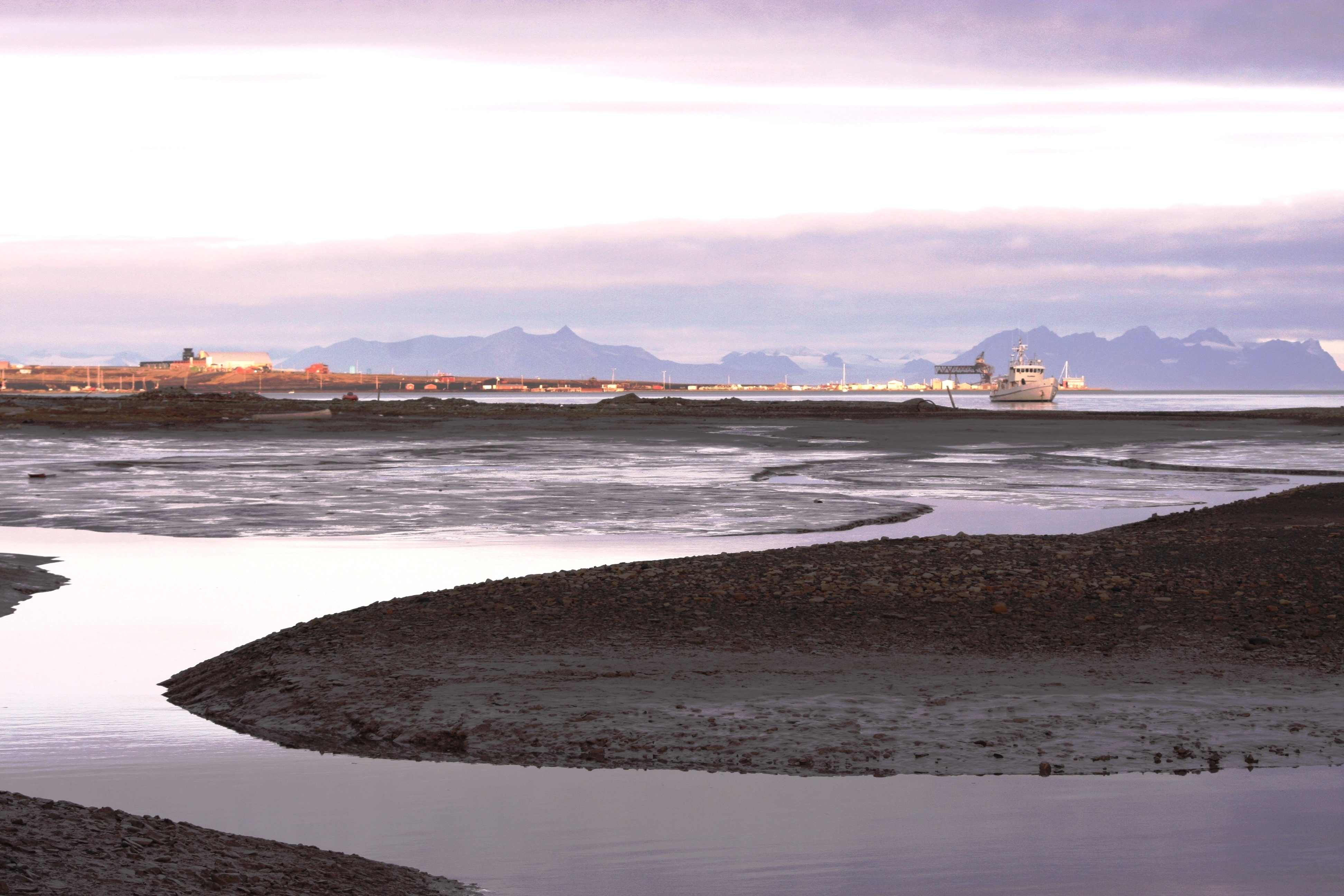 Image from the estuary of the river Adventelva, in the fjord Adventfjorden - Longyearbyen (Svalbard)